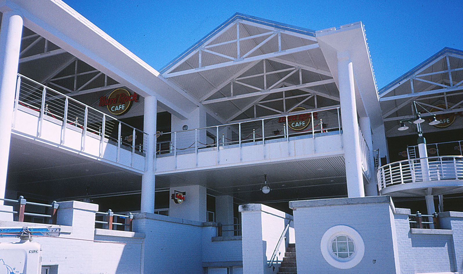 The later closed Hard Rock Cafe in V&A Waterfront in Cape Town, Southafrica. February 19, 1997.